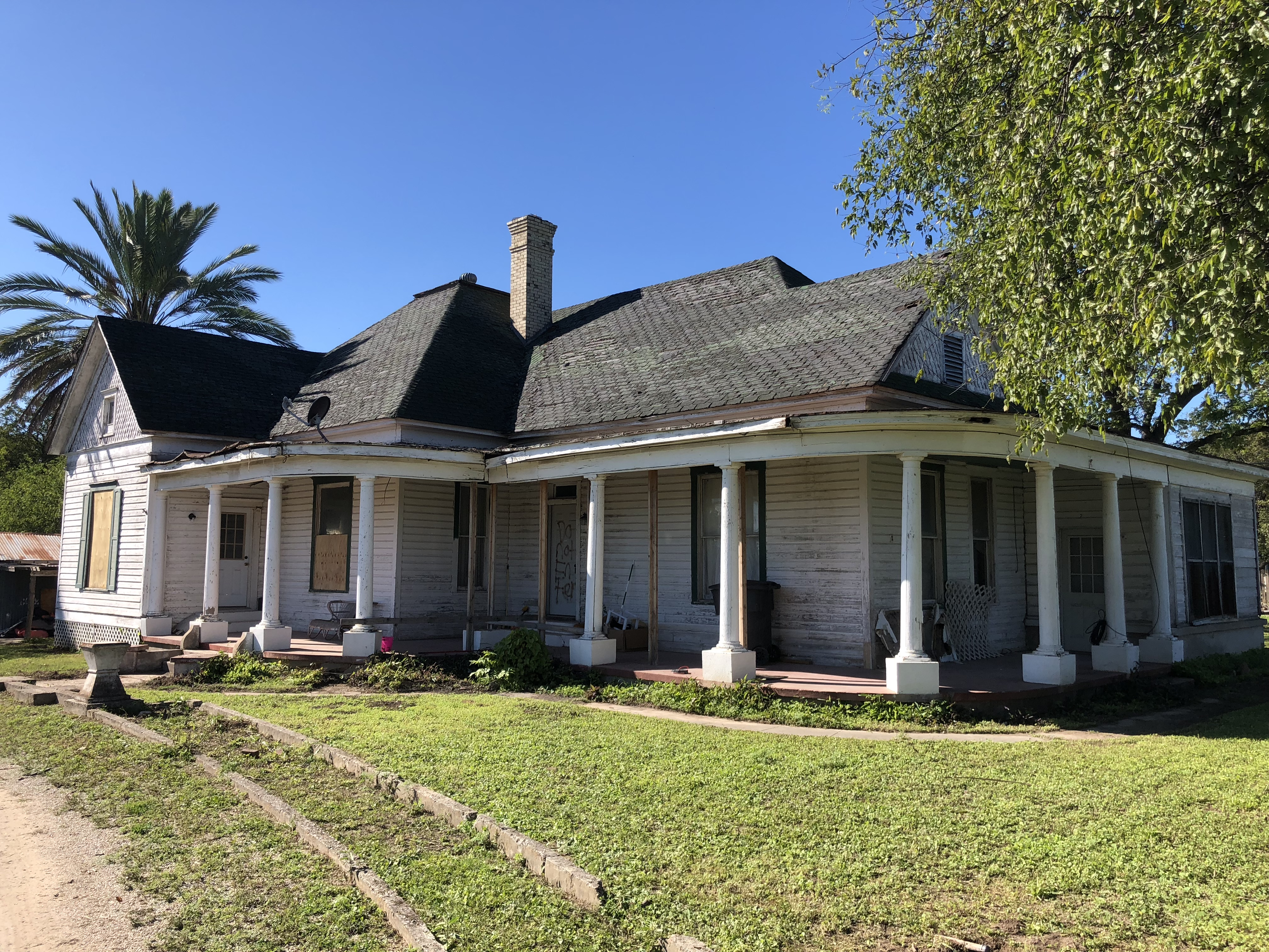 Home where Dale Evans (Lucille Wood Smith) grew up in Uvalde, TX